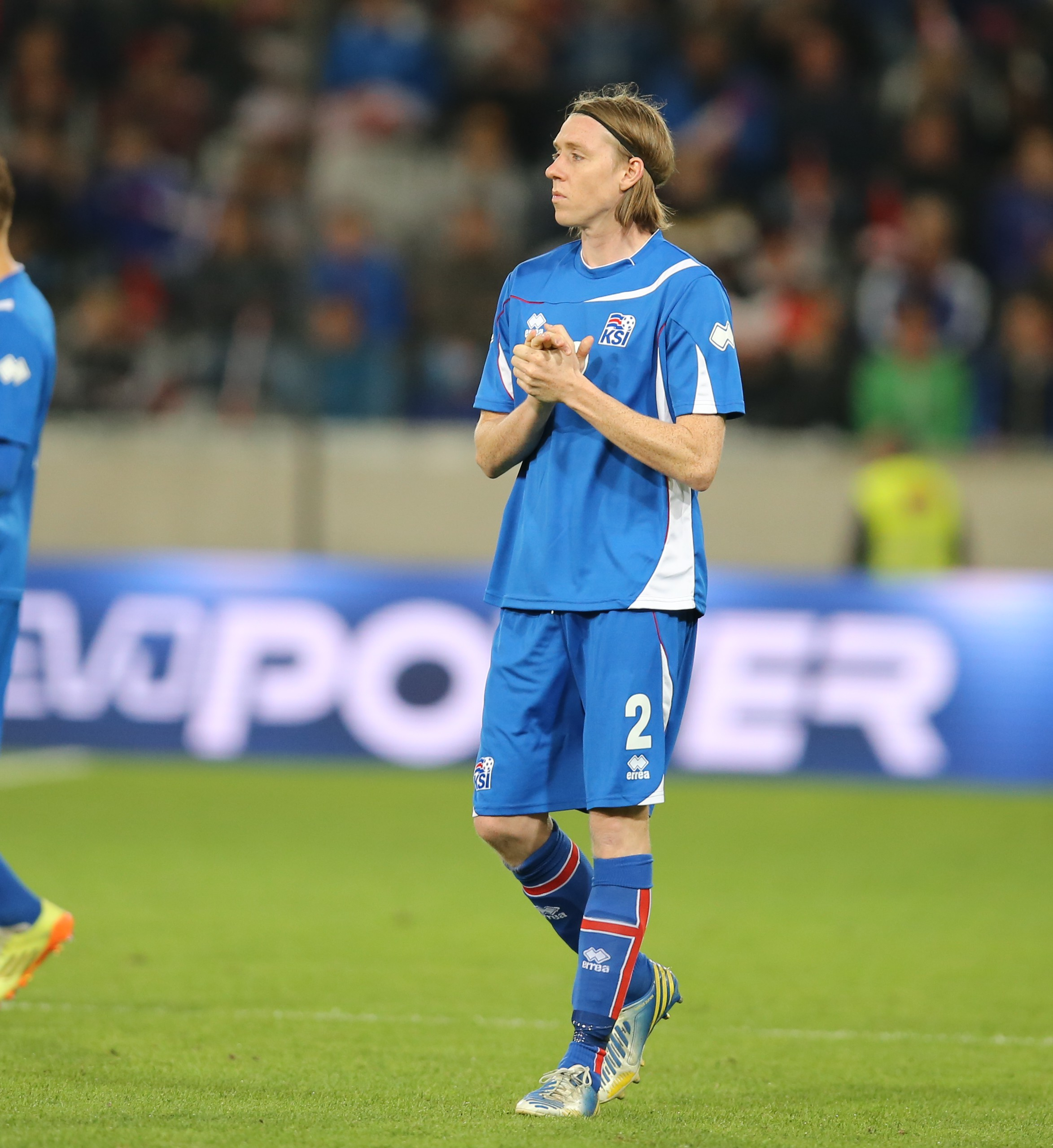 Austria - Iceland football match in Innsbruck, Austria on 2014-05-30. Austria in red, Iceland in blue.